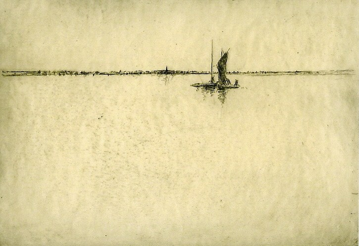 Calm Montrose, etching by William Lamb at Montrose